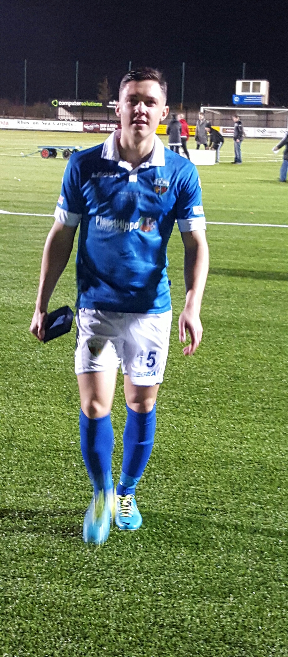 TNS word final